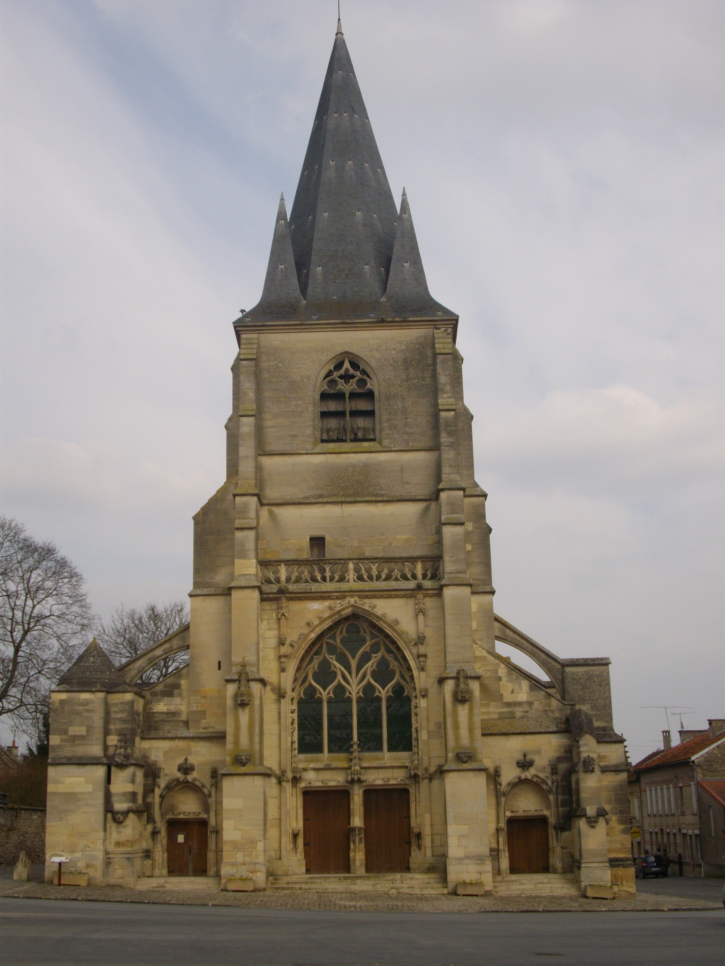 Saint Quiricus and Julietta church of Cormicy (Marne, France), western facade .